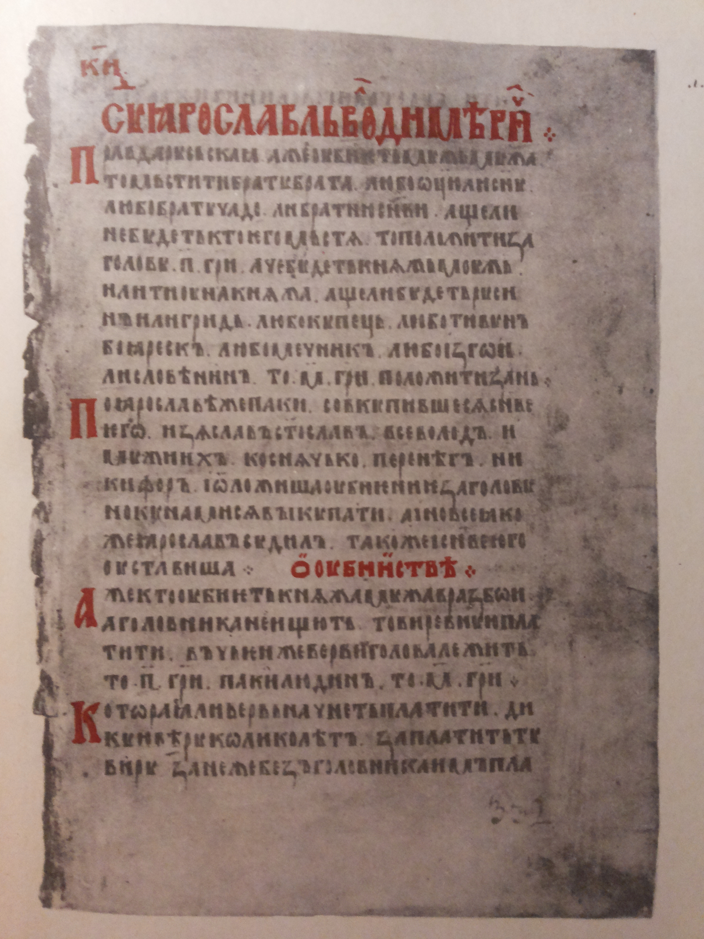 There is a facsimile reproduction of the instance Troitskiy I of Pravda Ruskaya, page 1